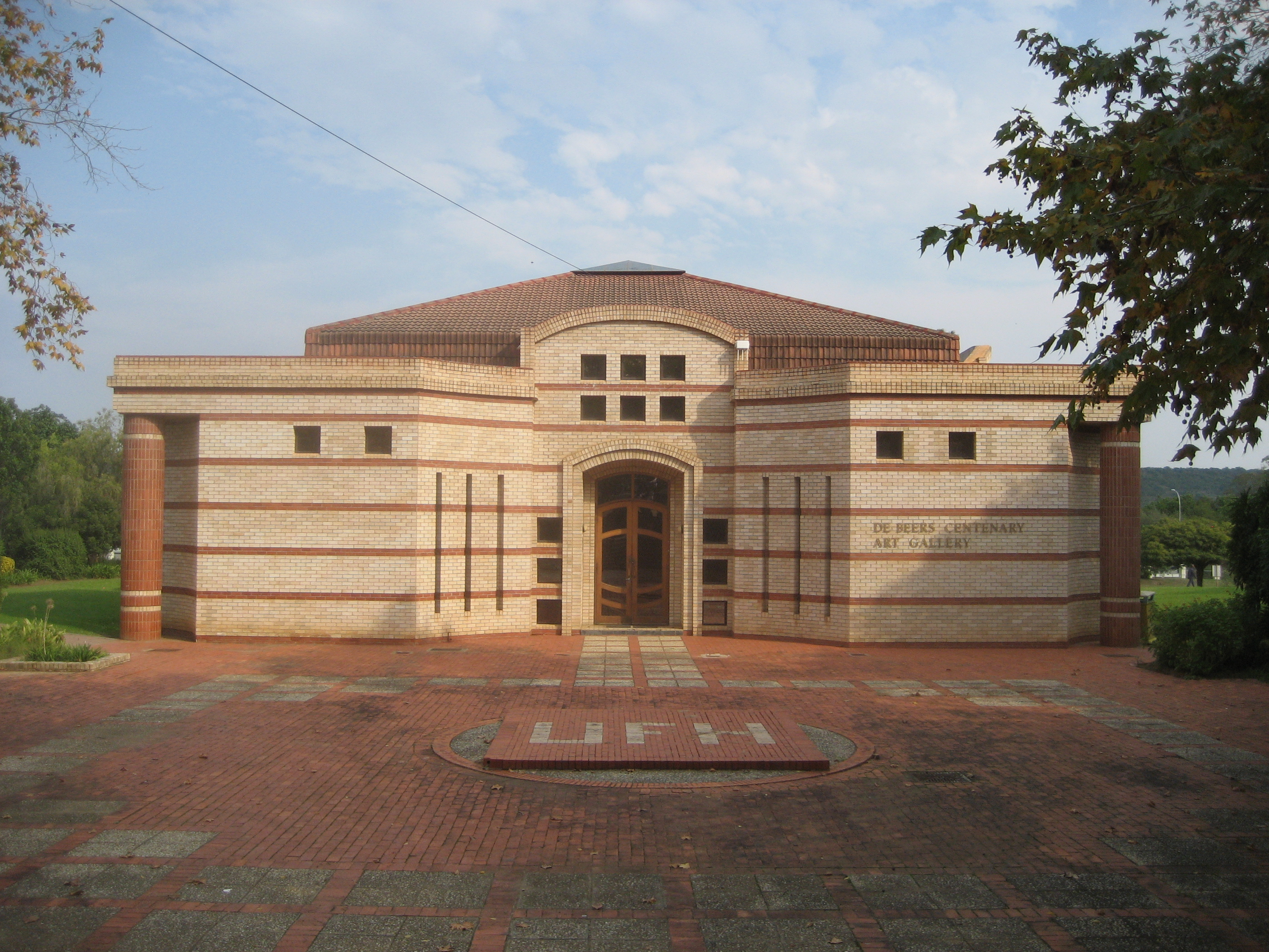 De Beers Centenary Art Gallery, Fort Hare University (South Africa)